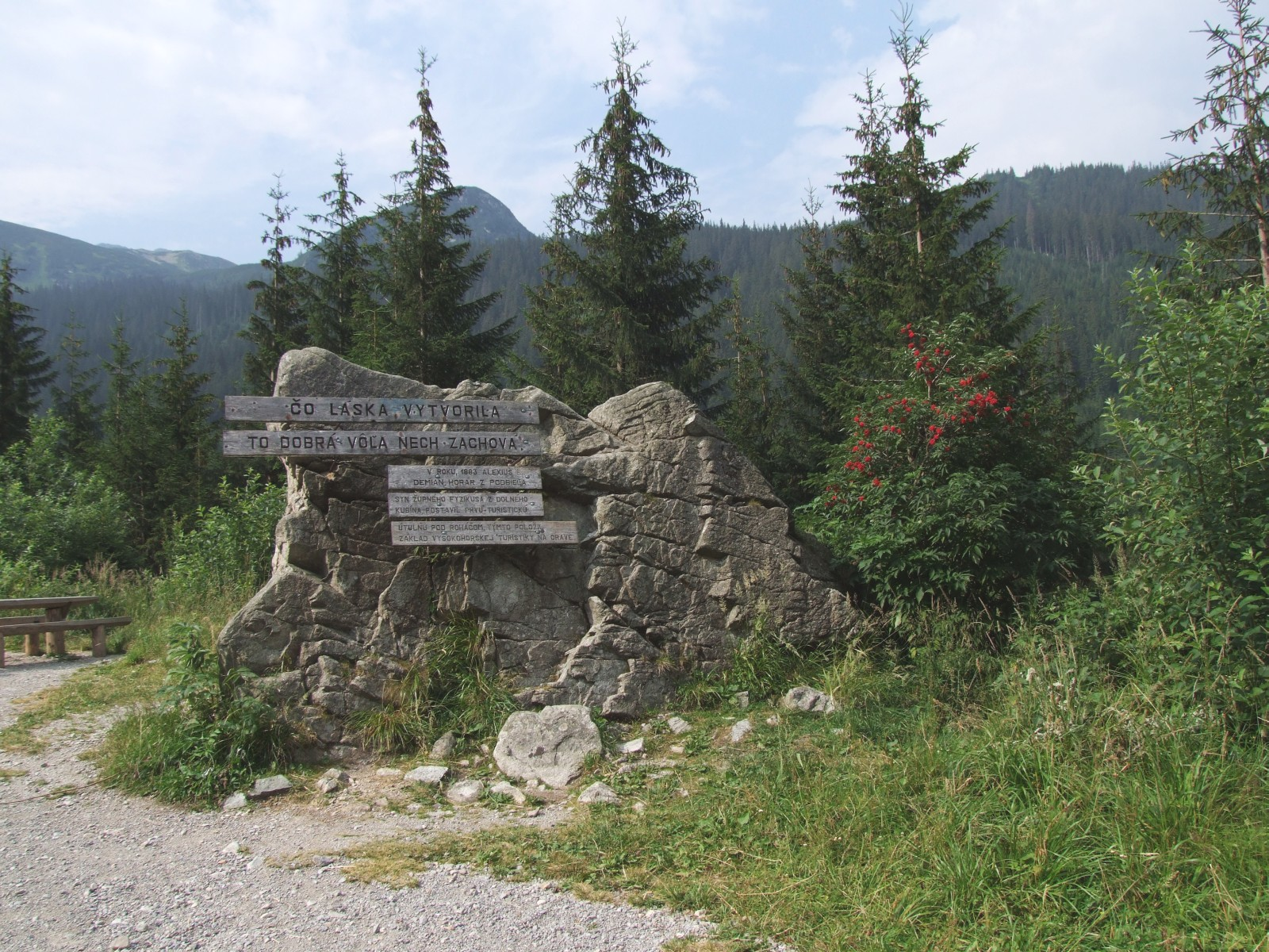 Roháčska Dolina (West Tatra Mountains), pl. Dolina Rohacka